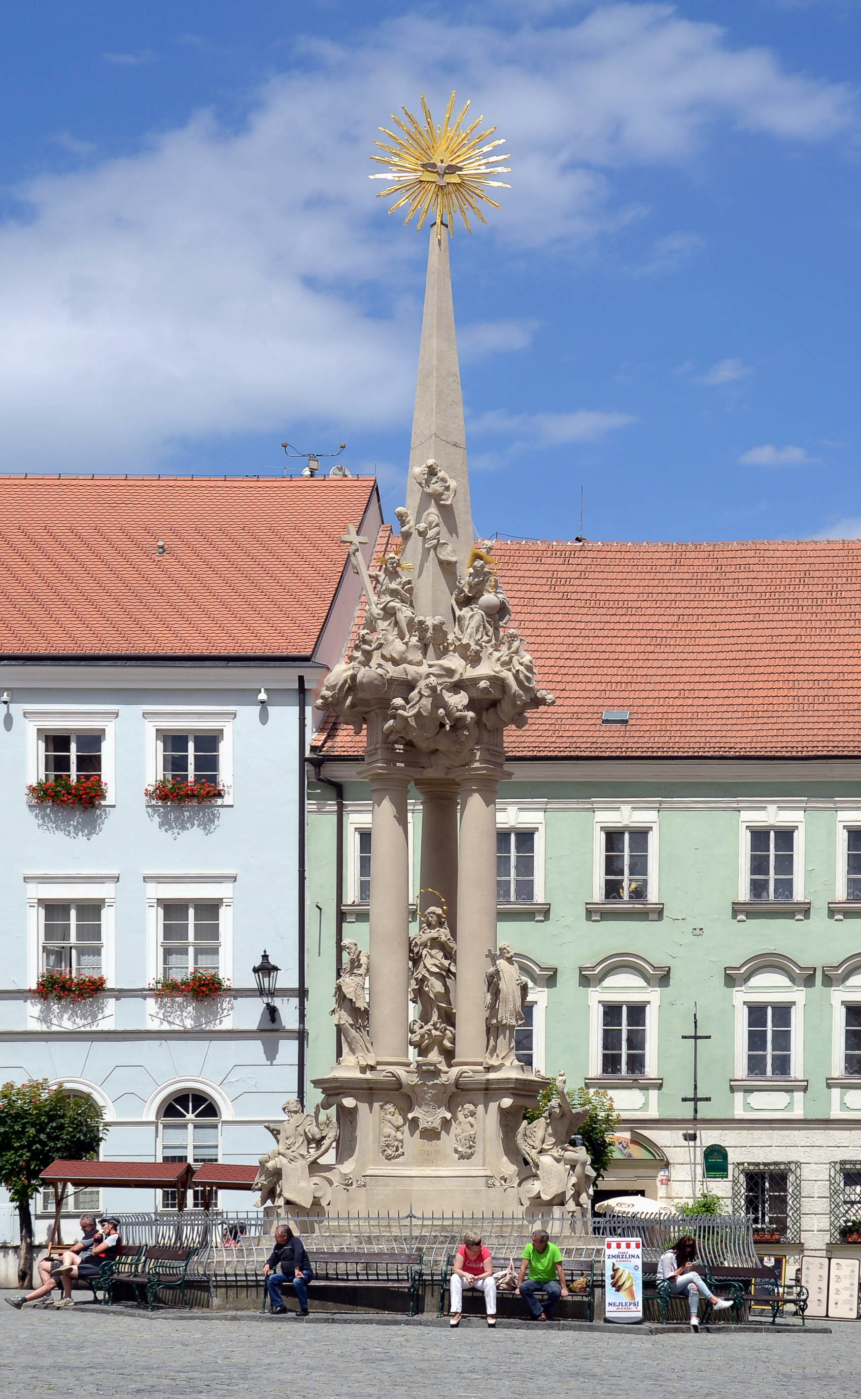 Mikulov (Nikolsburg), Moravia - Holy Trinity column